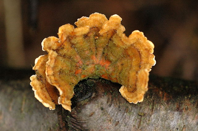 Stereum hirsutum from Commanster, Belgium. The determination of the species shown in this picture has been verified.